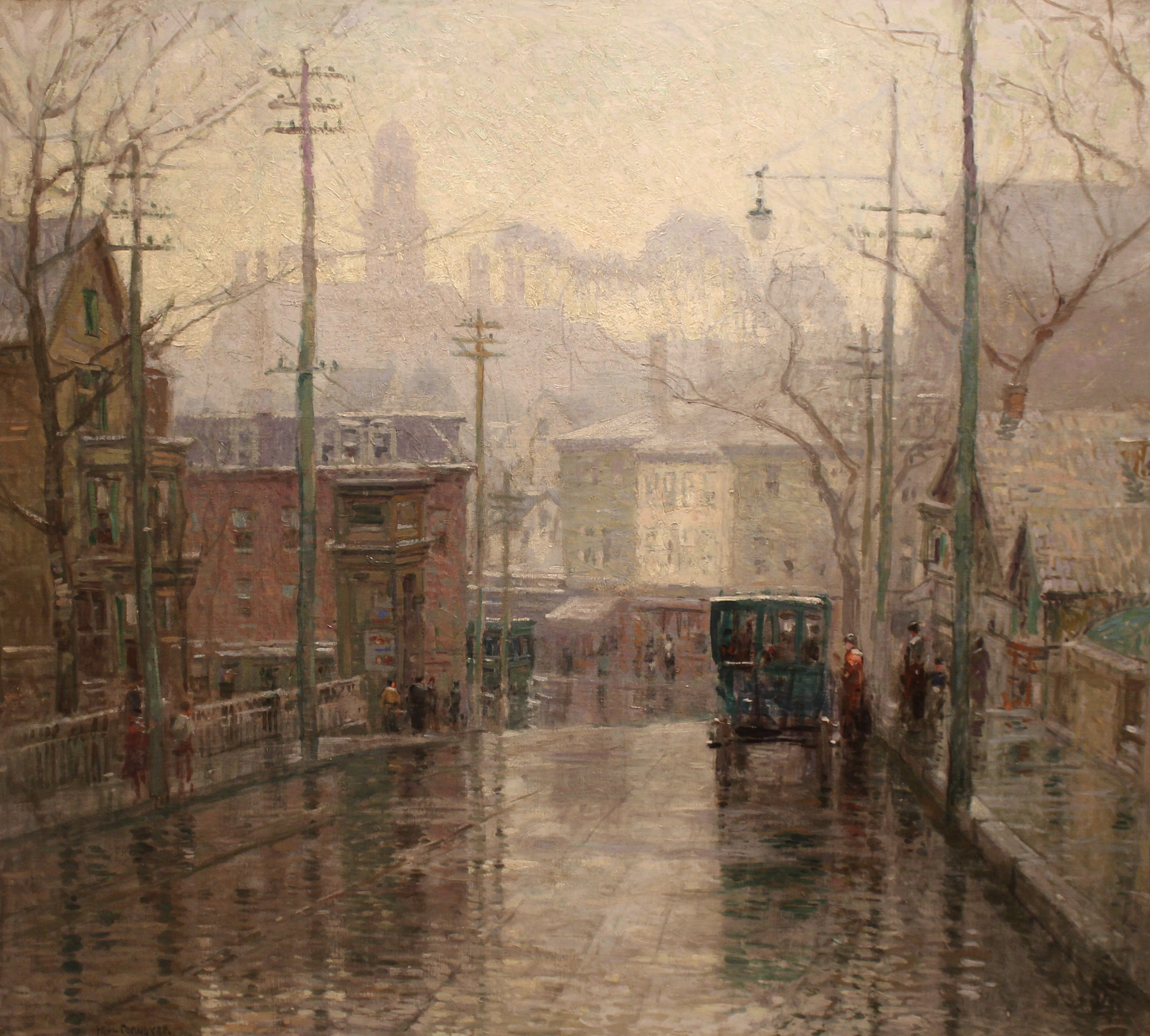 Photo of After the Rain Gloucester by Paul Cornoyer from Widner University Art Museum Alfred O. Deshong Collection